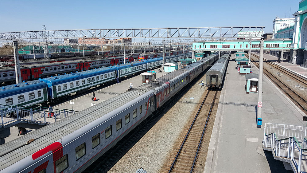 Novosibirsk Train Station